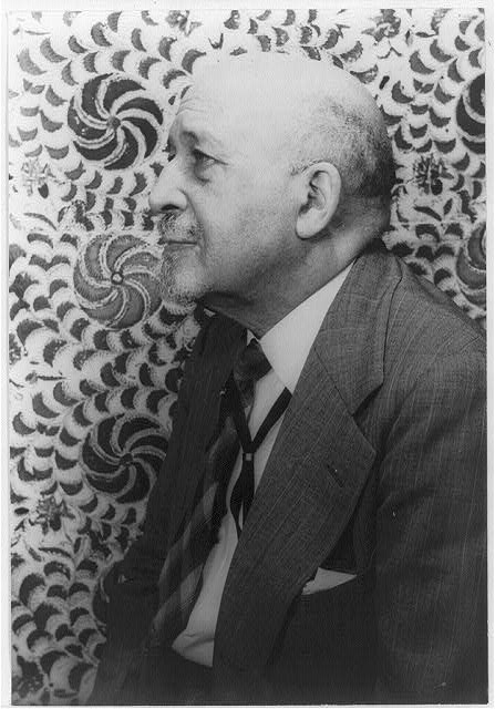 Portrait of W. E. B. Du Bois by Carl Van Vechten. Portrait of Dr. W.E.B. Du Bois (1946 July 18)